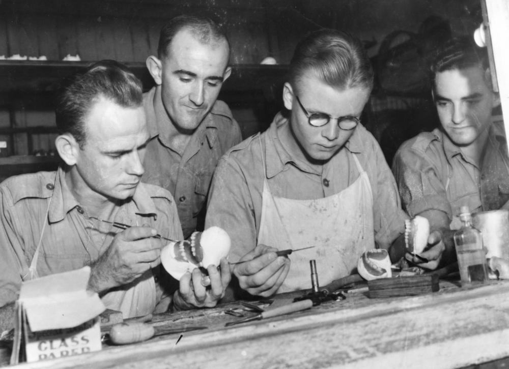 Demonstration of denture construction, Brisbane, 1940 Army dental technicians demonstrating how to set up teeth dentures at the Exhibition Grounds in Brisbane. Pictured from left to right: Fred Bromley, Len Stratford, Les Boyd and Norm Gatehouse. (Description supplied with photograph.).